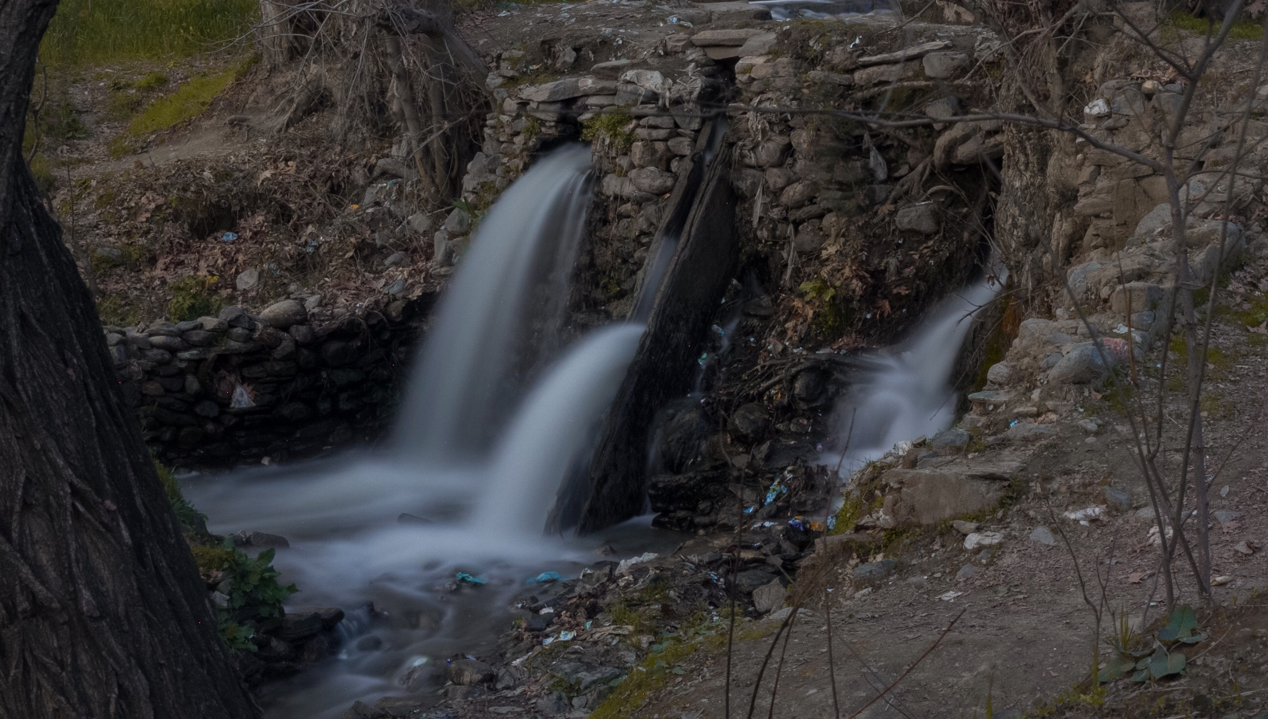 Traditional water flour mill in a stream in Charbagh, Swat District, KPK, Pakistan